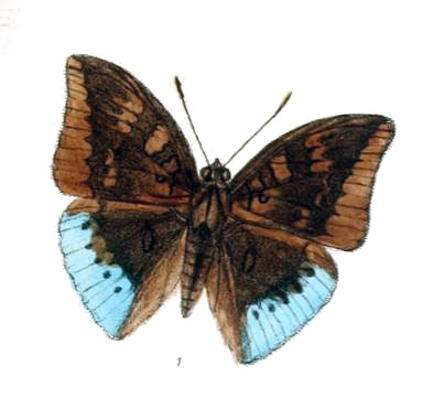 Euthalia zichri